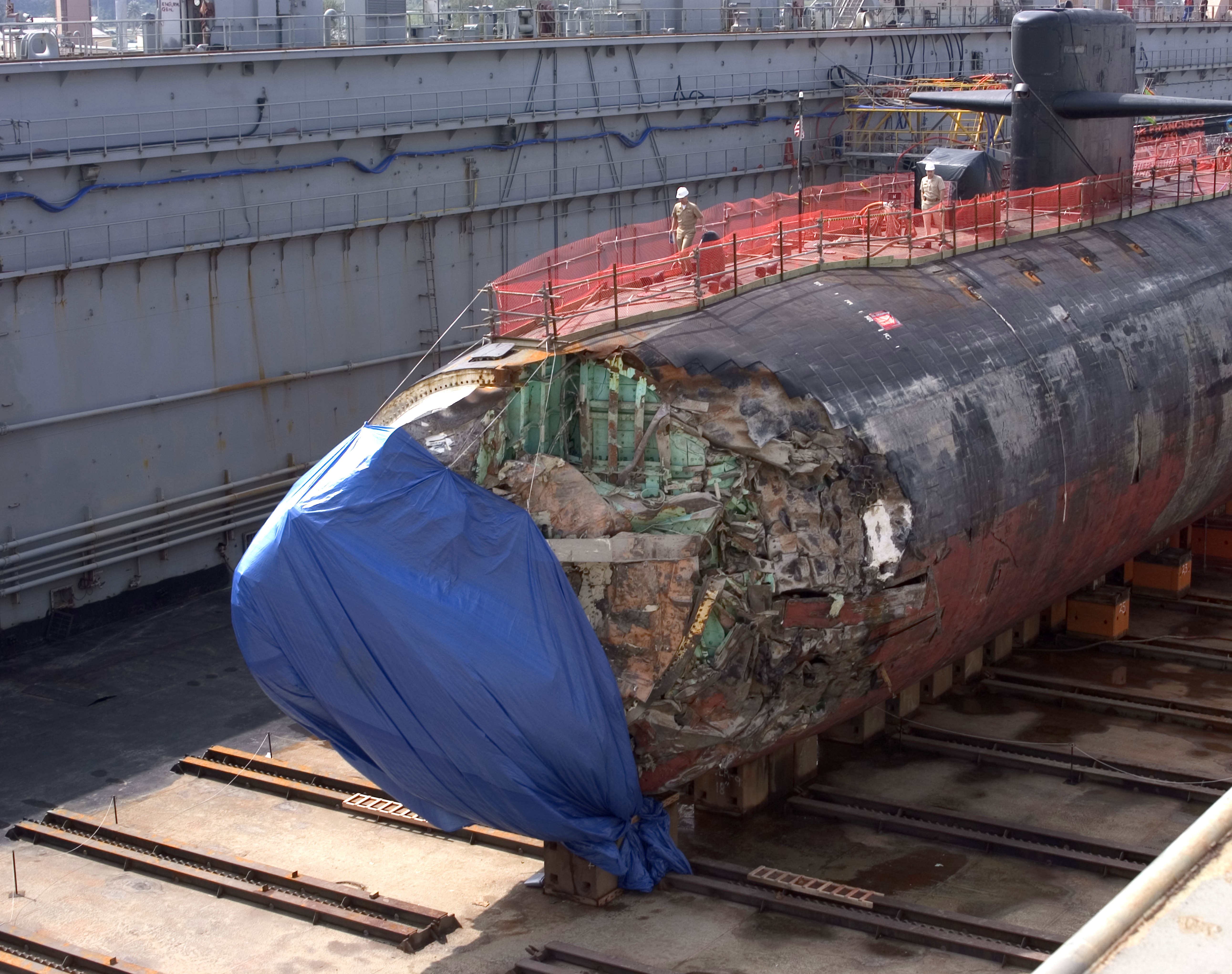 Apra Harbor, Guam (Jan. 27, 2005) - The Los Angeles-class fast-attack submarine USS San Francisco (SSN 711) in dry dock to assess damage sustained after running aground approximately 350 miles south of Guam Jan. 8, 2005. The Navy former dry dock known as “Big Blue” is capable of docking ships that weigh up to 40,000 Long Tons. The Navy certified Big Blue for the one-time docking of San Francisco. San Francisco is the second fast-attack submarine to be attached to the forward-deployed Submarine Squadron Fifteen, home ported on board Naval Base Guam. U.S. Navy photo by Photographer's Mate 2nd Class Mark Allen Leonesio (RELEASED)